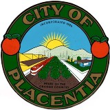 Seal of the city of Placentia, California